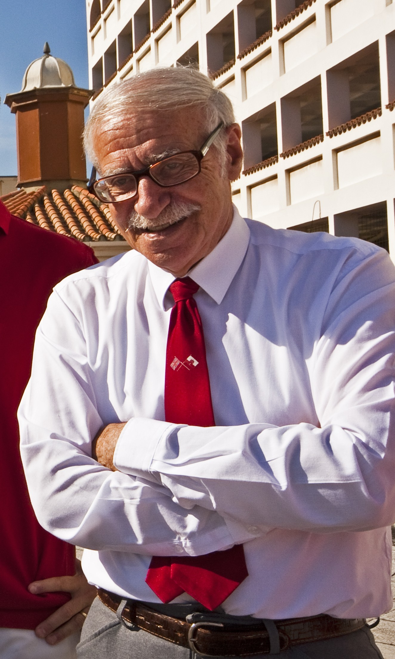 Keith Azopardi and Joe Bossano at the Gibraltar National Day Political Rally, 10 September 2011.